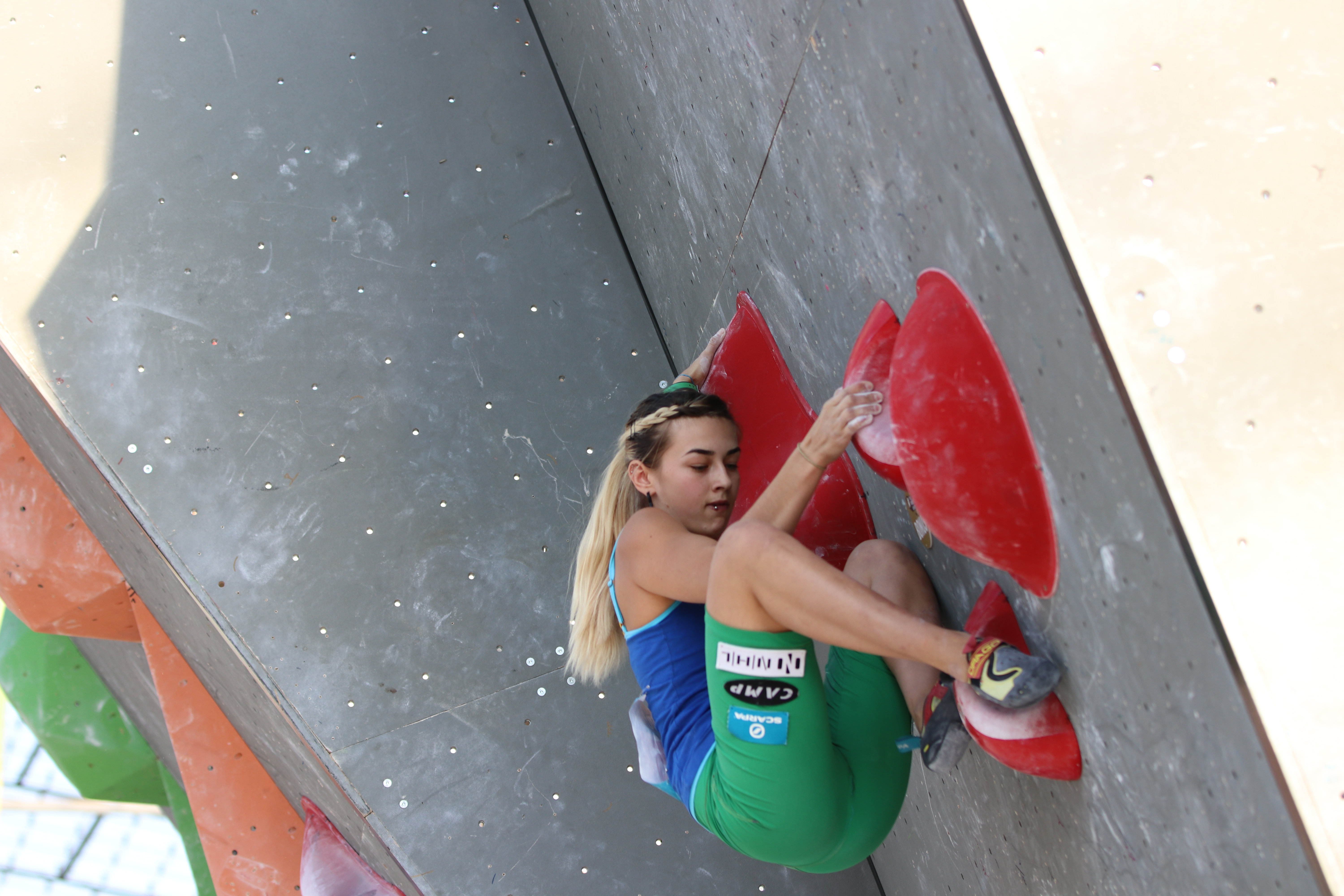 Ievgeniia Kazbekova UKR at the Boulder Worldcup 2017 in Munich, Germany.